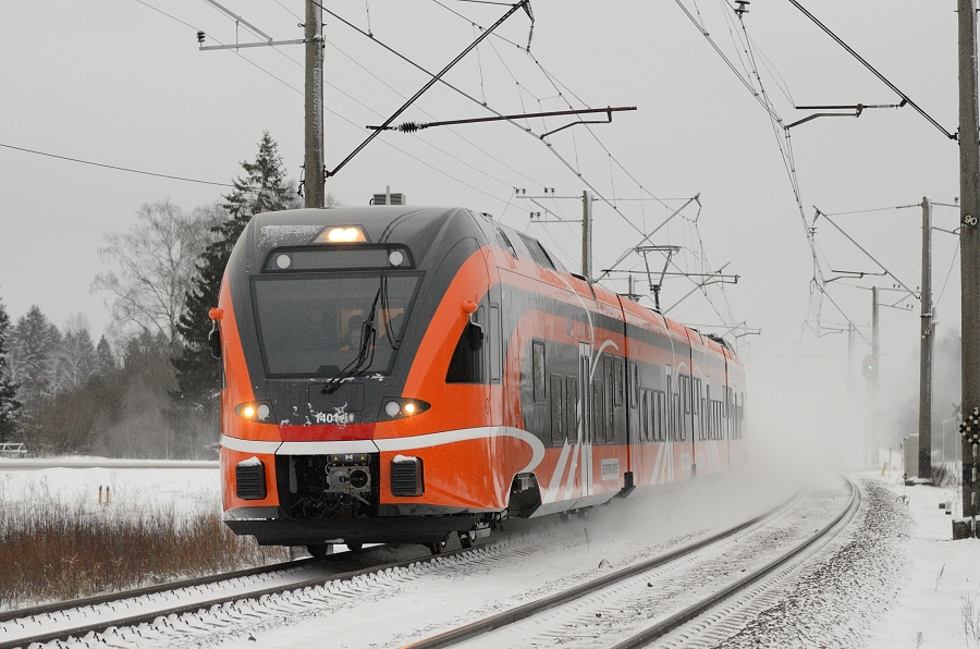 New FLIRT EMU of Elektriraudtee